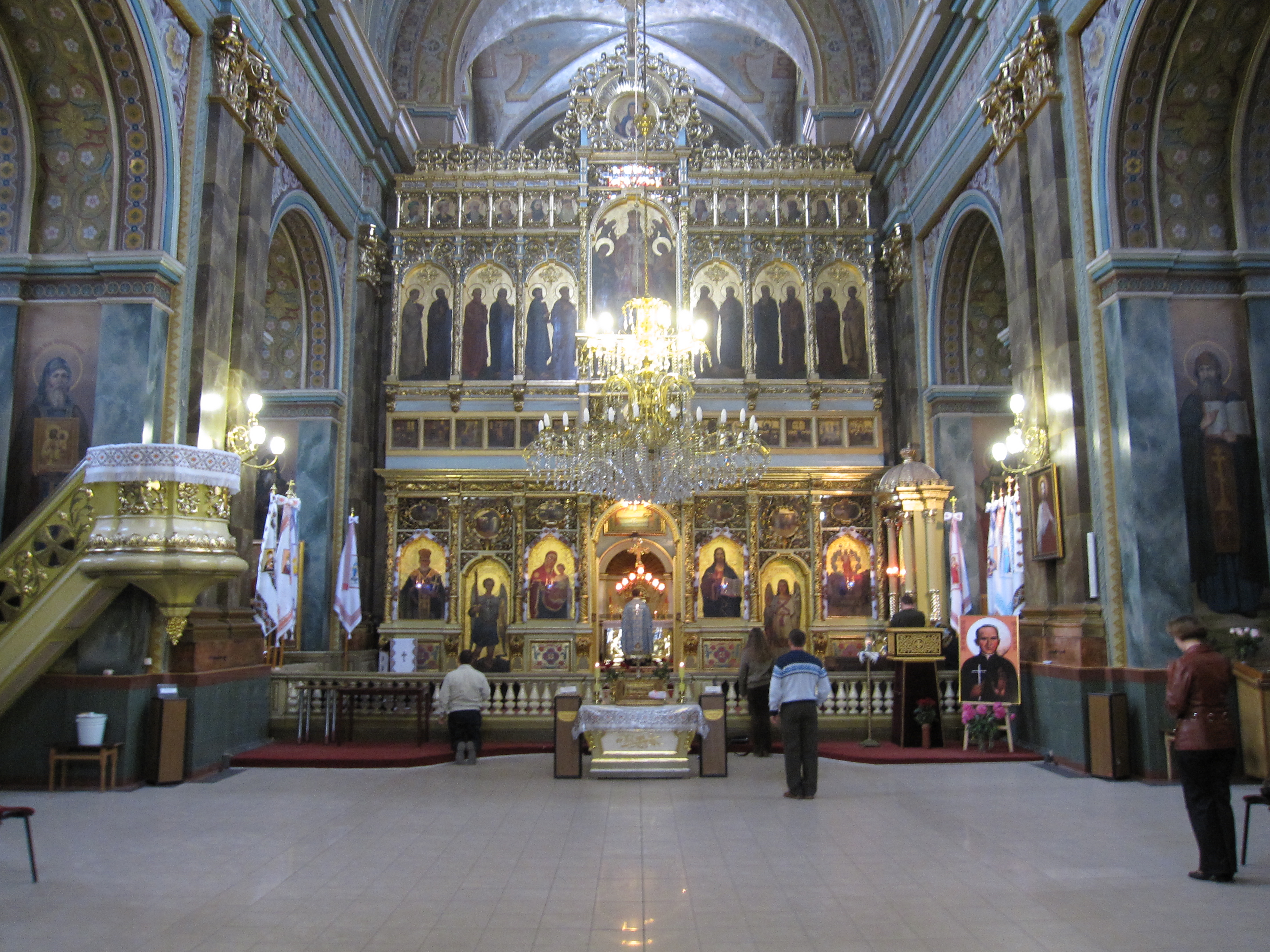 Interior of the Cathedral of Holy Resurrection in Stanisławów